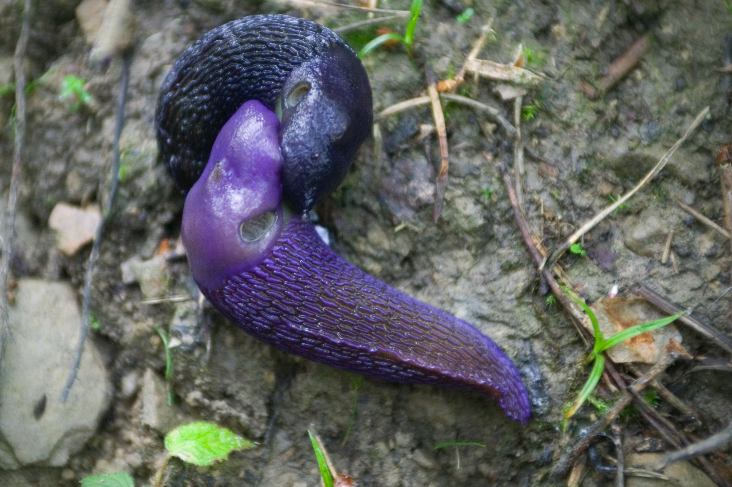 Bielzia coerulans, Poland, Low Beskids